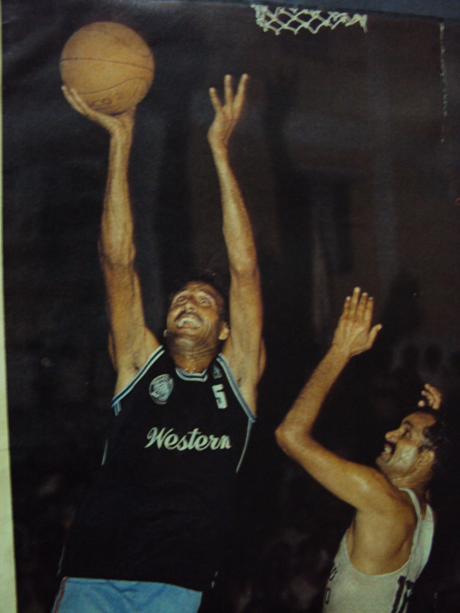 Forward Western Railways